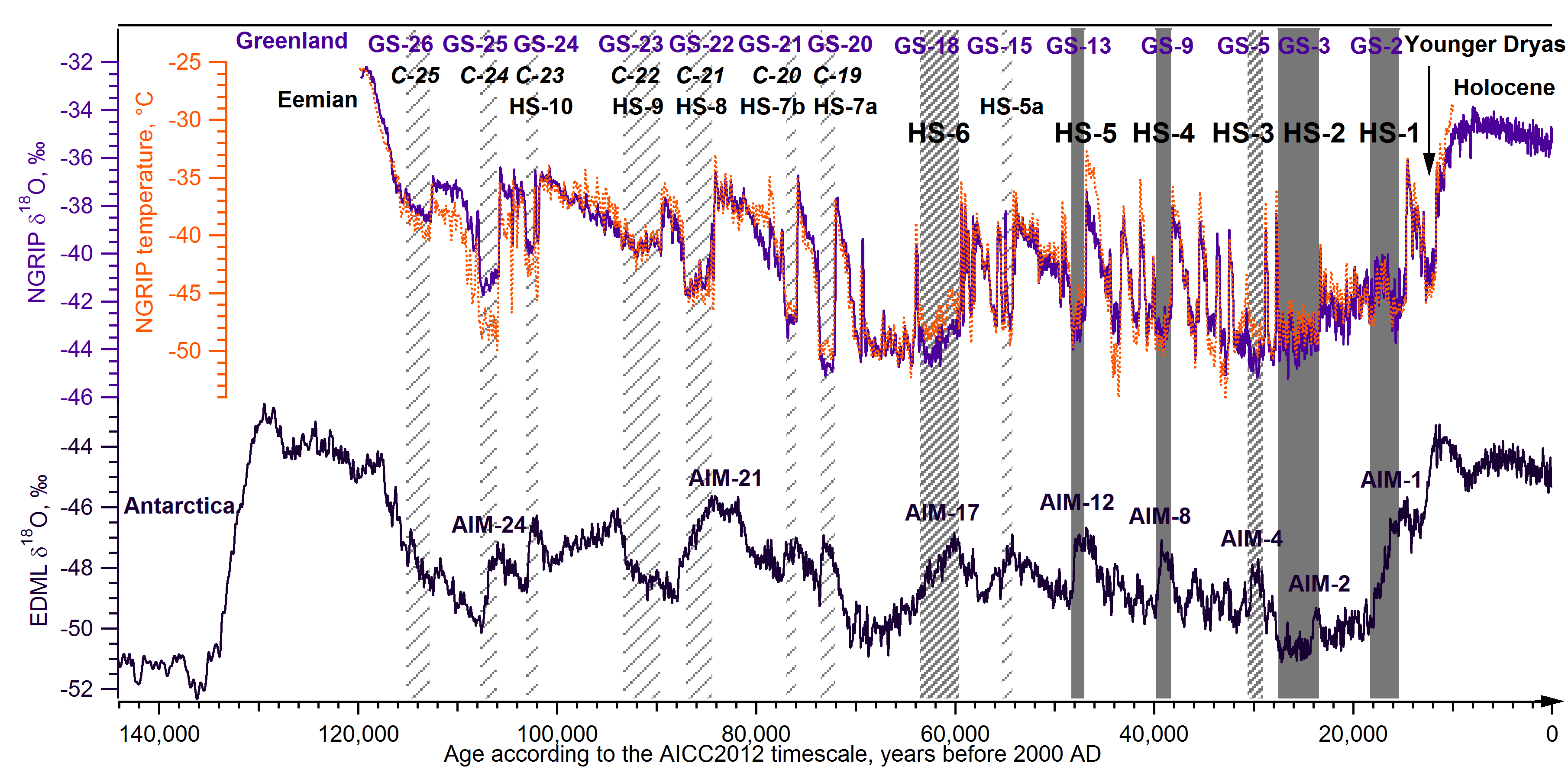 Chronology (time running left to right) of climatic events of importance for the Last Glacial Period (~last 120 000 years) as recorded in polar ice cores, and approximate relative position of Heinrich events, initially recorded in marine sediment cores from the North Atlantic Ocean.